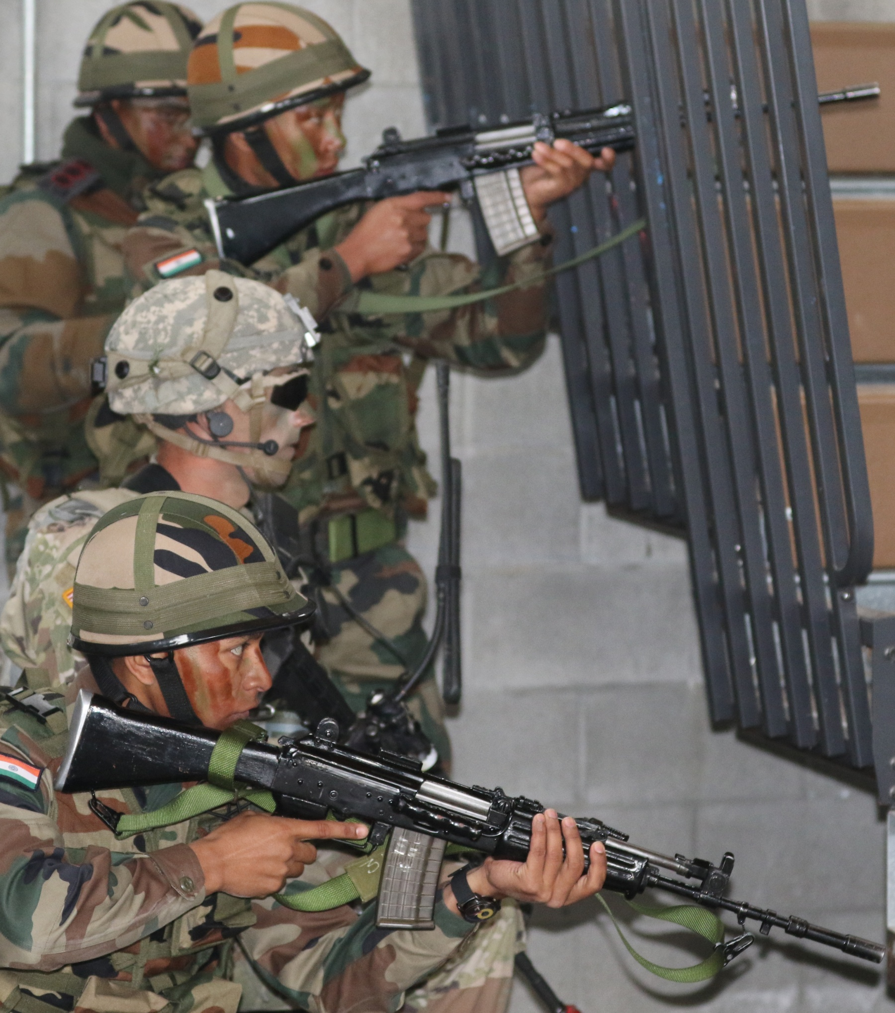 Soldiers from the Indian Army 2/11 Gorkha Rifles and a U.S. Soldier with 2-3 Infantry, 1-2 Stryker Brigade Combat Team, search a room for enemy combatants during a training scenario Sept. 25, at the Leschi Town on Joint Base Lewis-McChord, Washington. This was part of Yudh Abhyas 2017, an exercise that builds the interoperability and warfighting effectiveness of both nations.